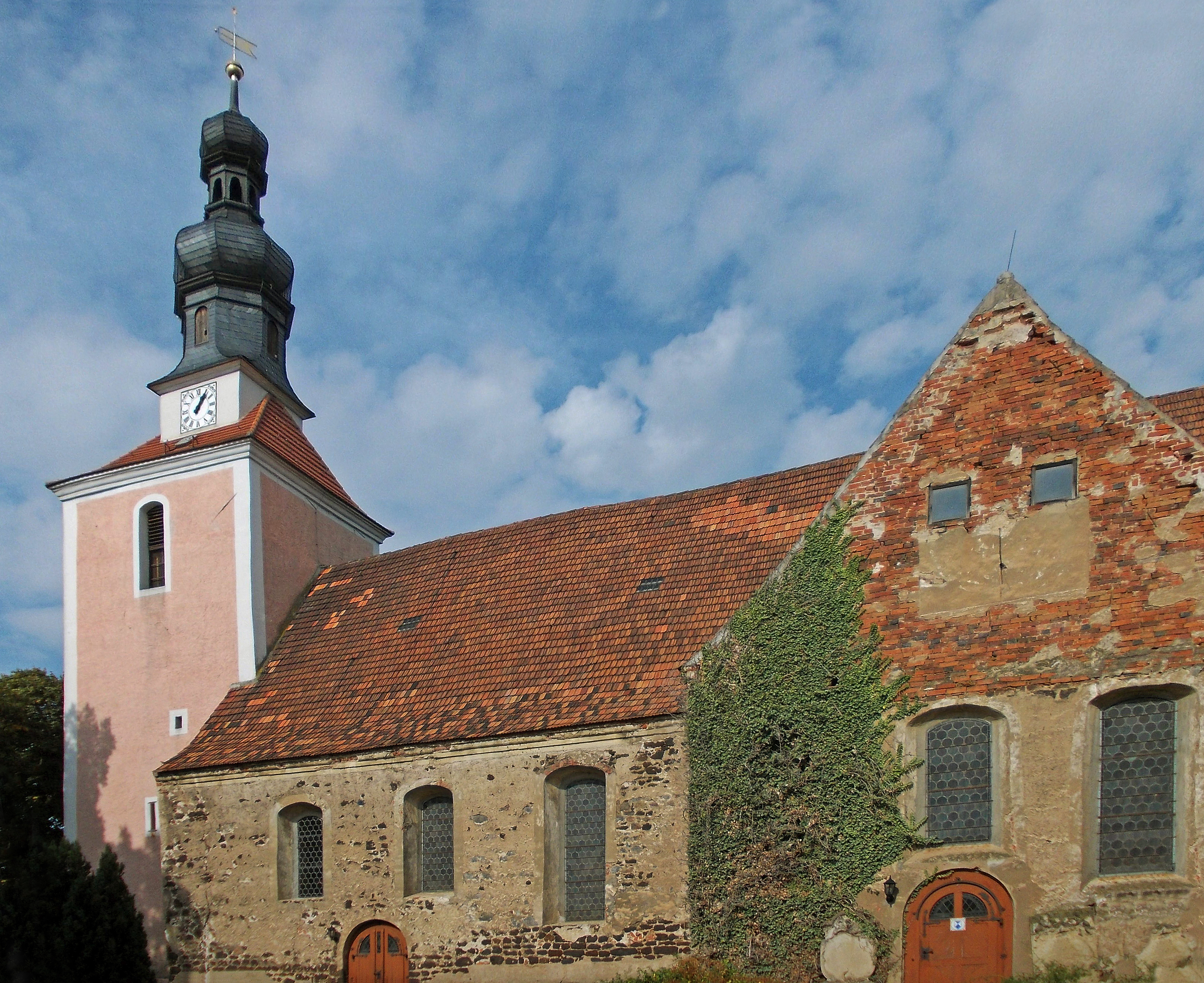 Wahrenbrück church (Uebigau-Wahrenbrück, Elbe-Elster district, Brandenburg)